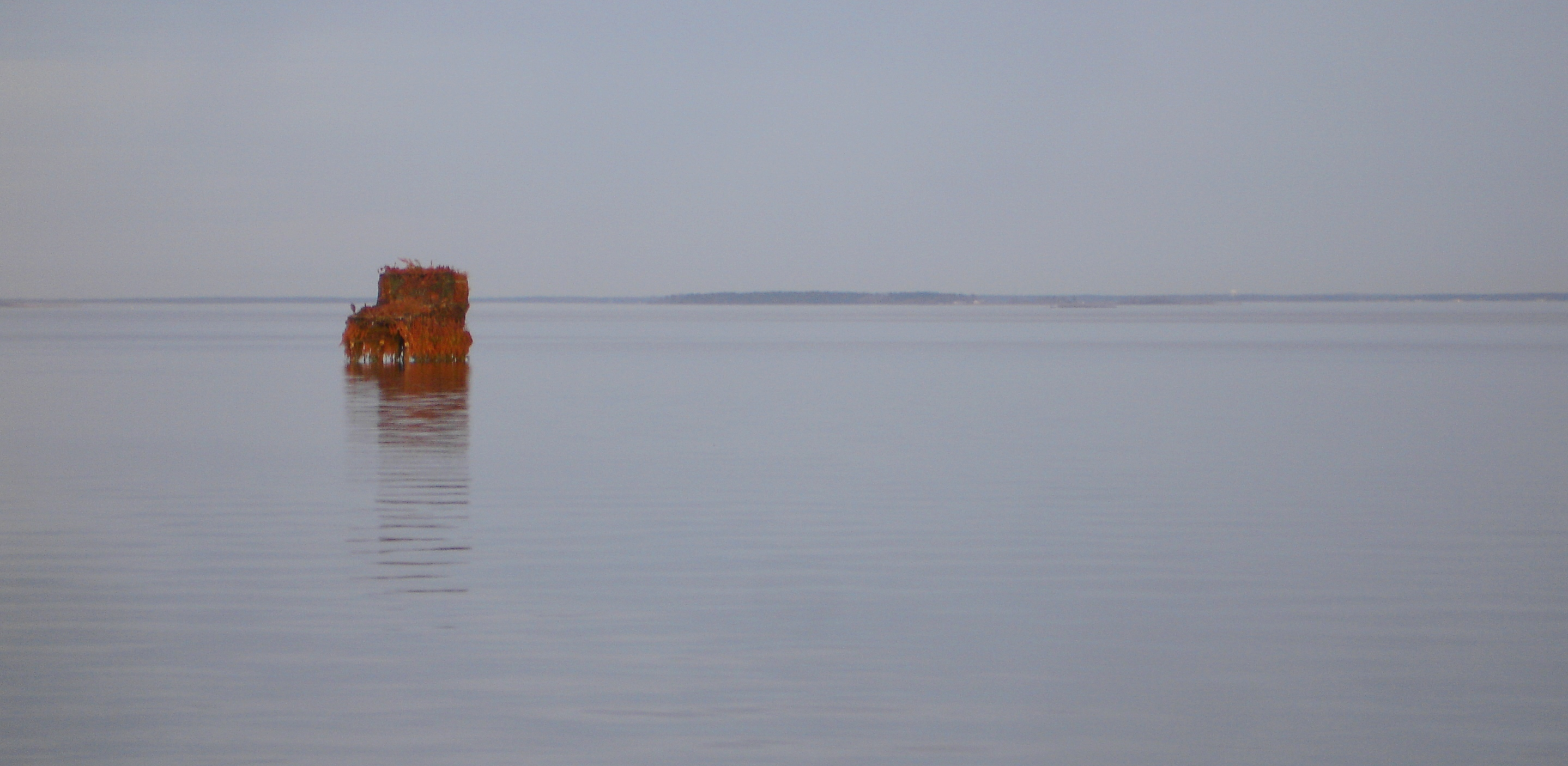 I think I like this horizontal crop better than the vertical one. It was a grey day, and the water really did simply melt into the sky with only a sliver of the Eastern shore to separate them. I caught the blind in the wan but reddish-gold light of the setting sun, otherwise it would have been grey also.